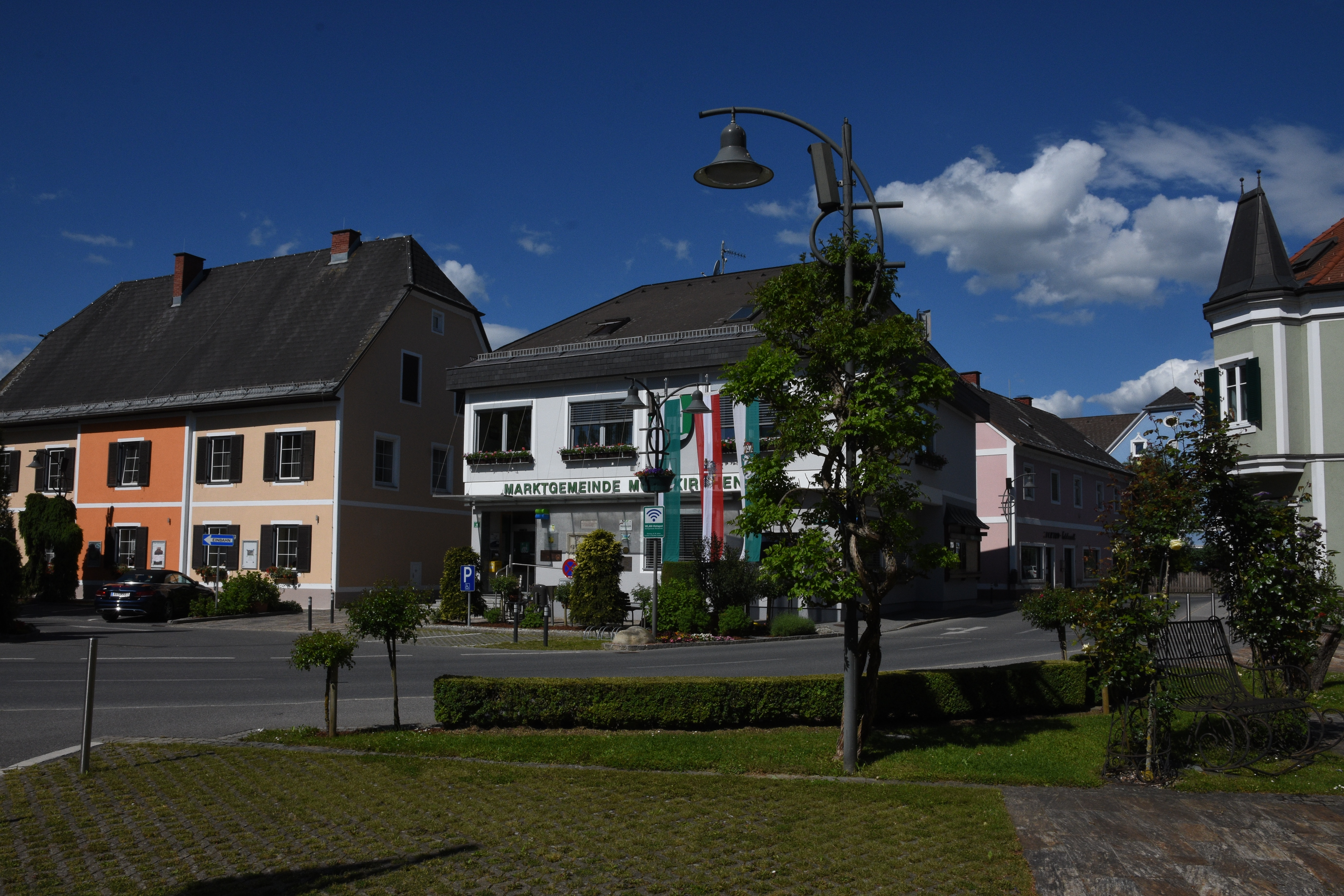 Mooskirchen